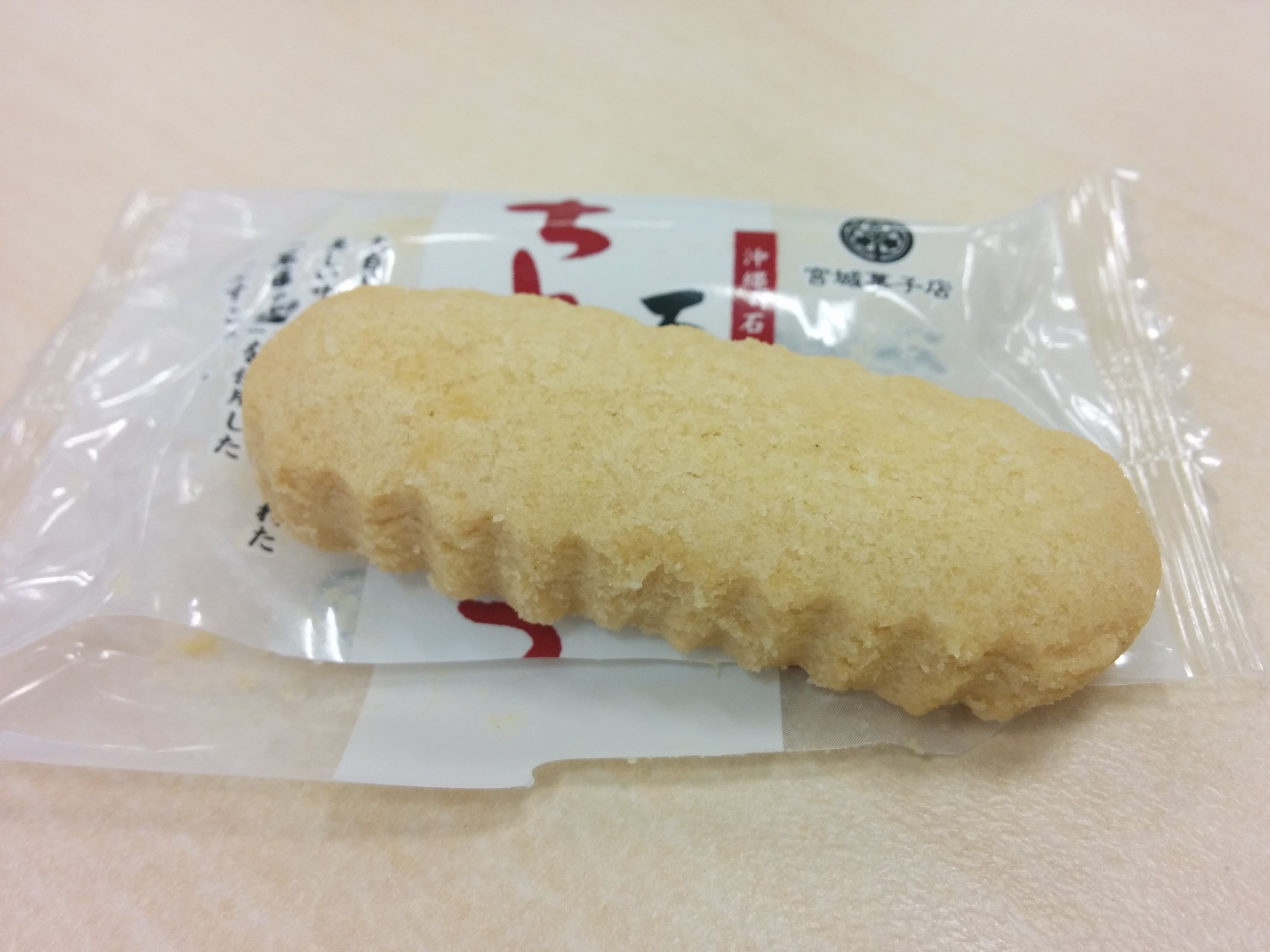 Chinsukō is a traditional biscuit (or cookie) in Okinawa.